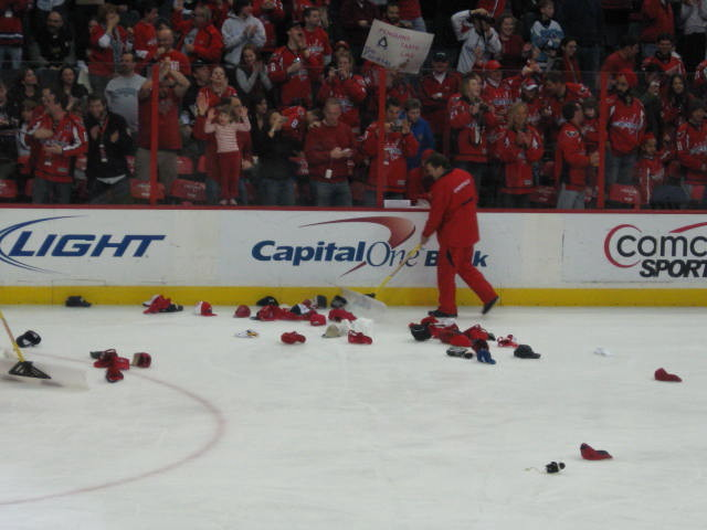 Hats on the Verizon Center ice after Alex Ovechkin's hat trick, February 7, 2010, versus the Pittsburgh Penguins.